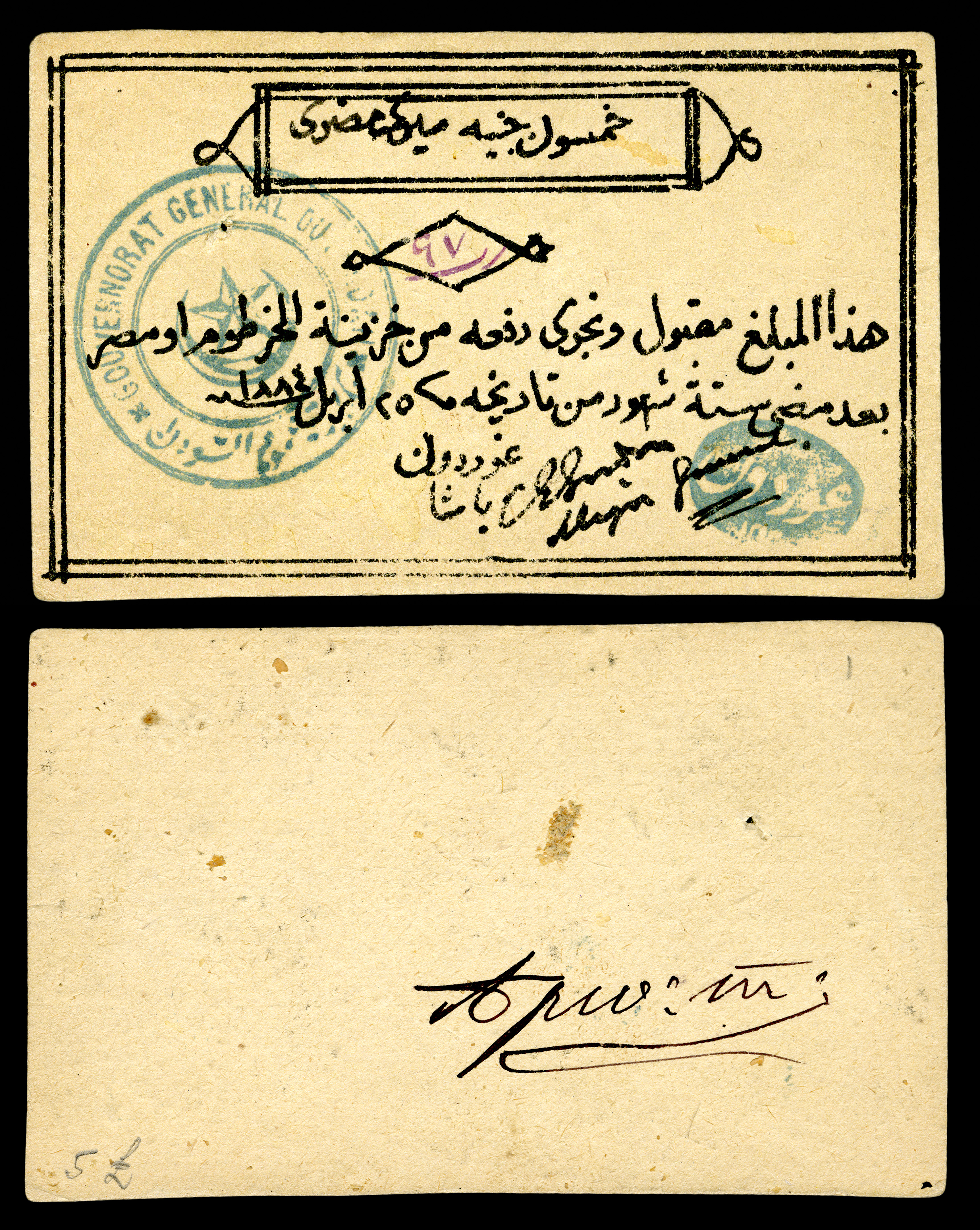 Sudan, Siege of Khartoum note (issued by Charles George Gordon for the British Administration), 50 Egyptian Pounds (1884)